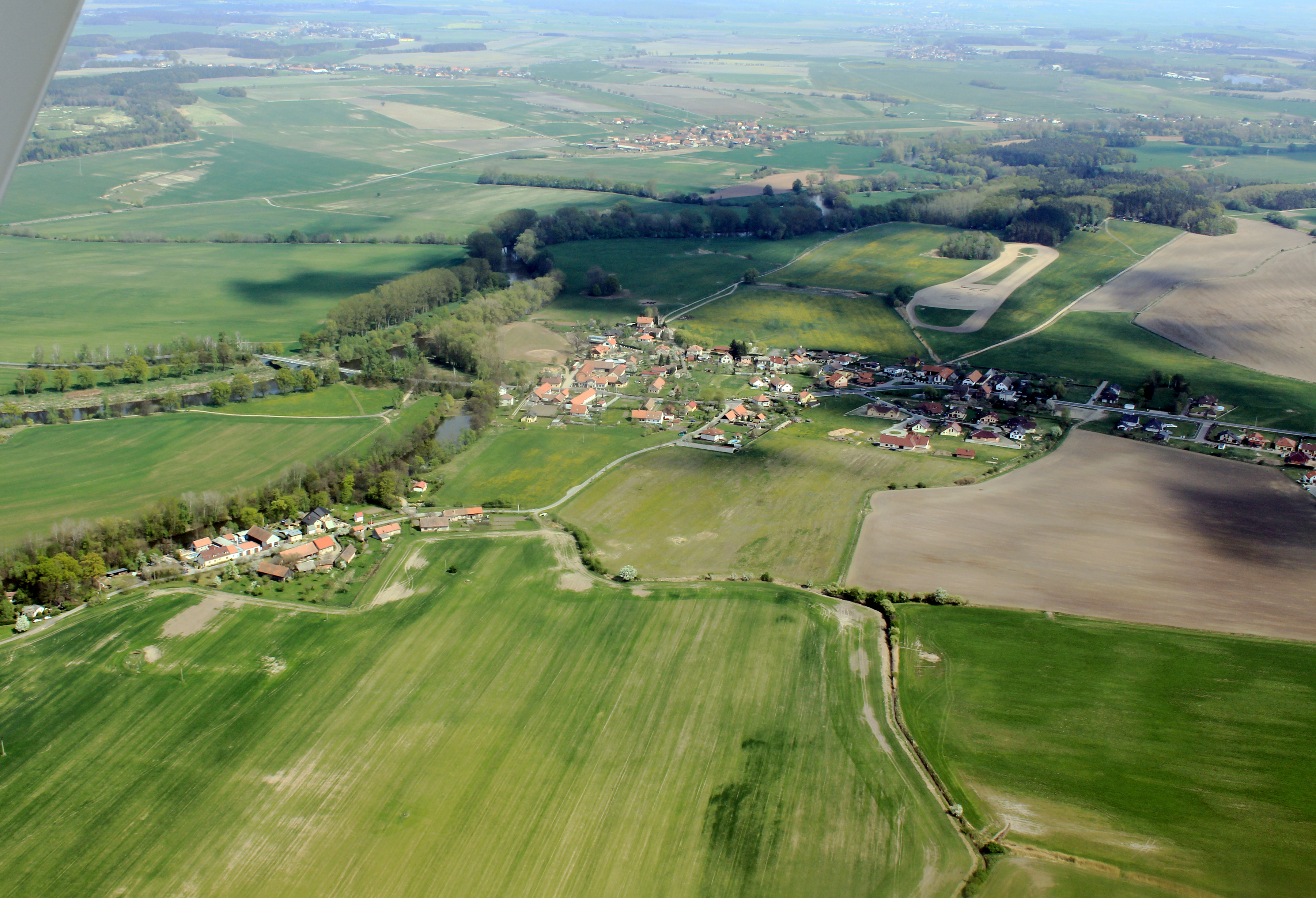 Village Němčice and village Dražkov (part of Sezemice) from air, eastern Bohemia, Czech Republic